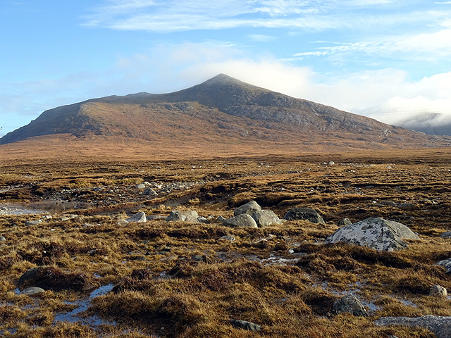 Some very boggy ground near Islibhig. With Mealaisbhal dominating the view.